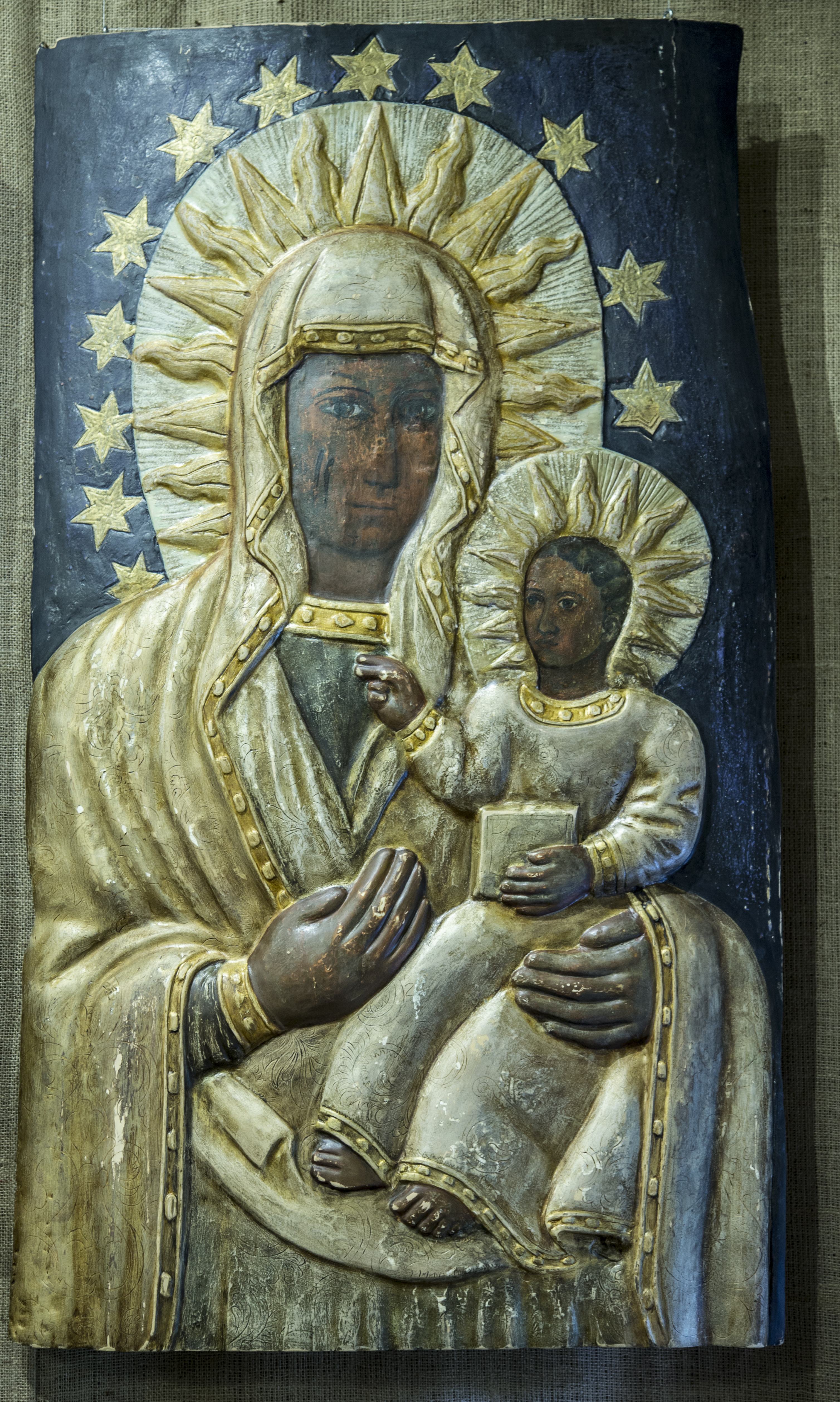 The image of the Holy Virgin of Częstochowa (before 1714). The collection of Radomysl Castle, Ukraine